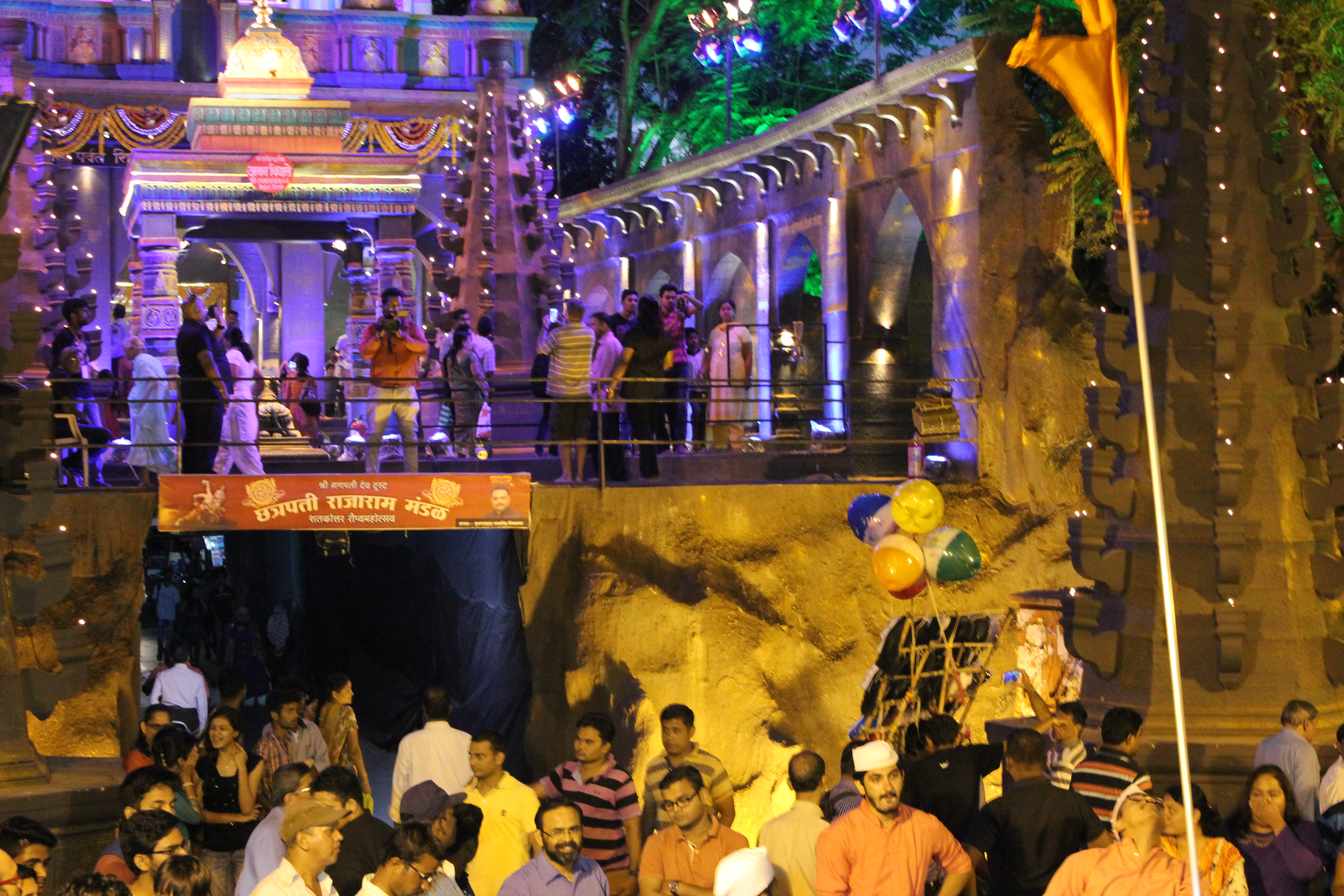 people are enjoying Ganesh Festival